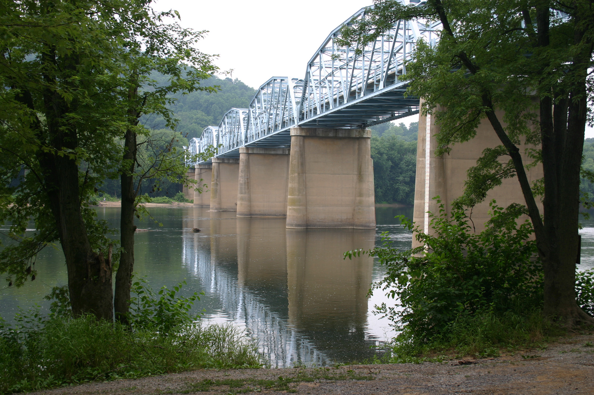 U.S. Route 15 bridge across the Potomac River at Point of Rocks, Maryland.